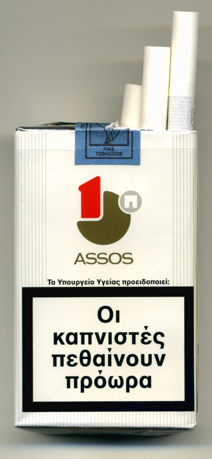 Greek cigarettes - Papastratos: ASSOS 1